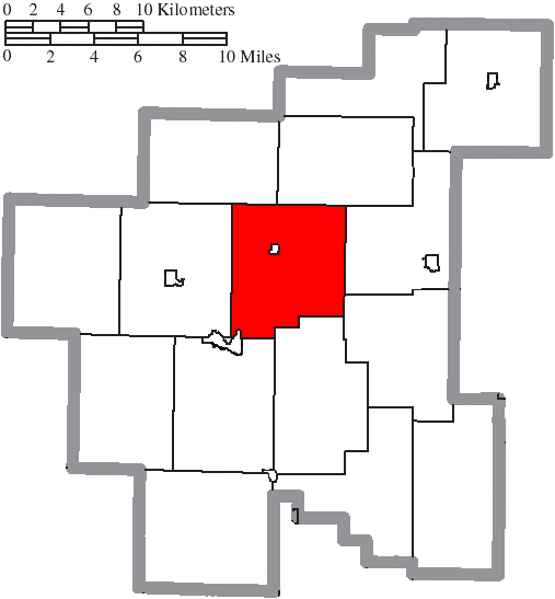 Map of the municipal and township boundaries of Noble County, Ohio, United States, as of the 2000 census, with the location of Center Township highlighted. Township borders are shown only in unincorporated areas in order to differentiate incorporated and unincorporated areas more clearly.